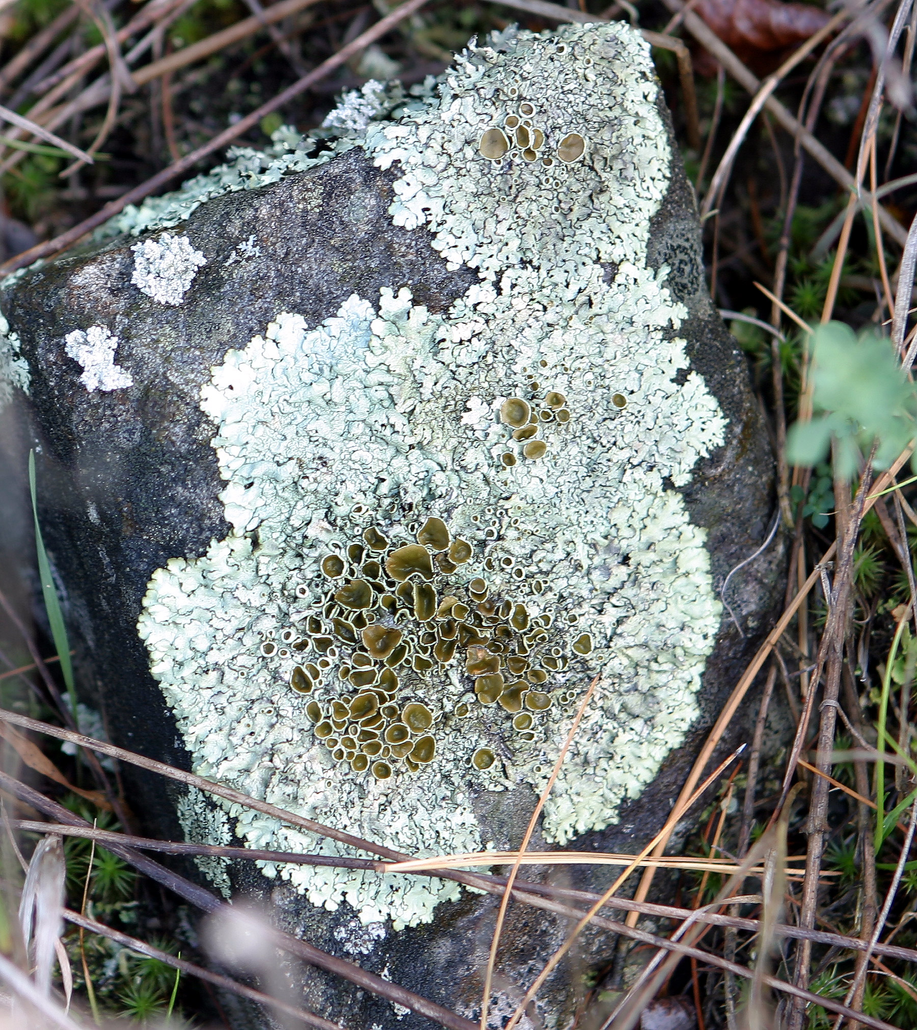 Self made picture of Lichen, taken 2006.